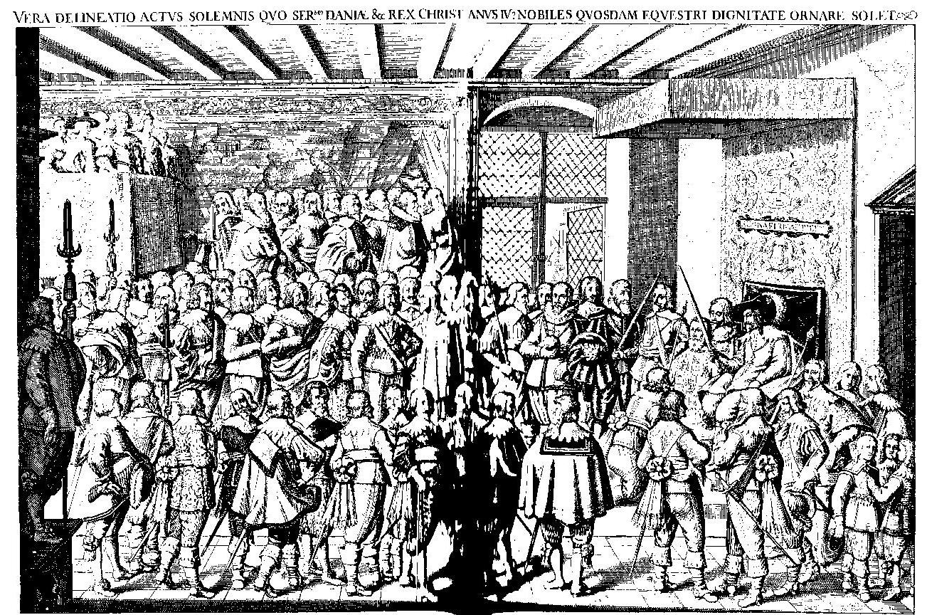 Christian IV of Denmark in The great hall at Copenhagen Castle on the 5.th of October 1634.